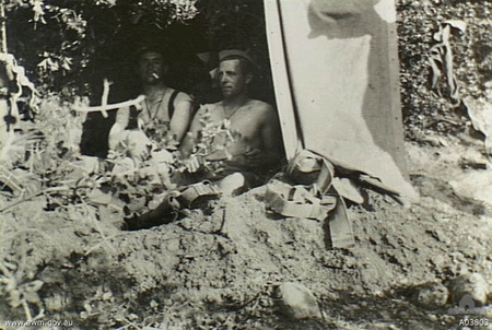 Soldiers from the 14th Battalion, AIF, (Australian Army) occupy positions around Gallipoli in 1915.